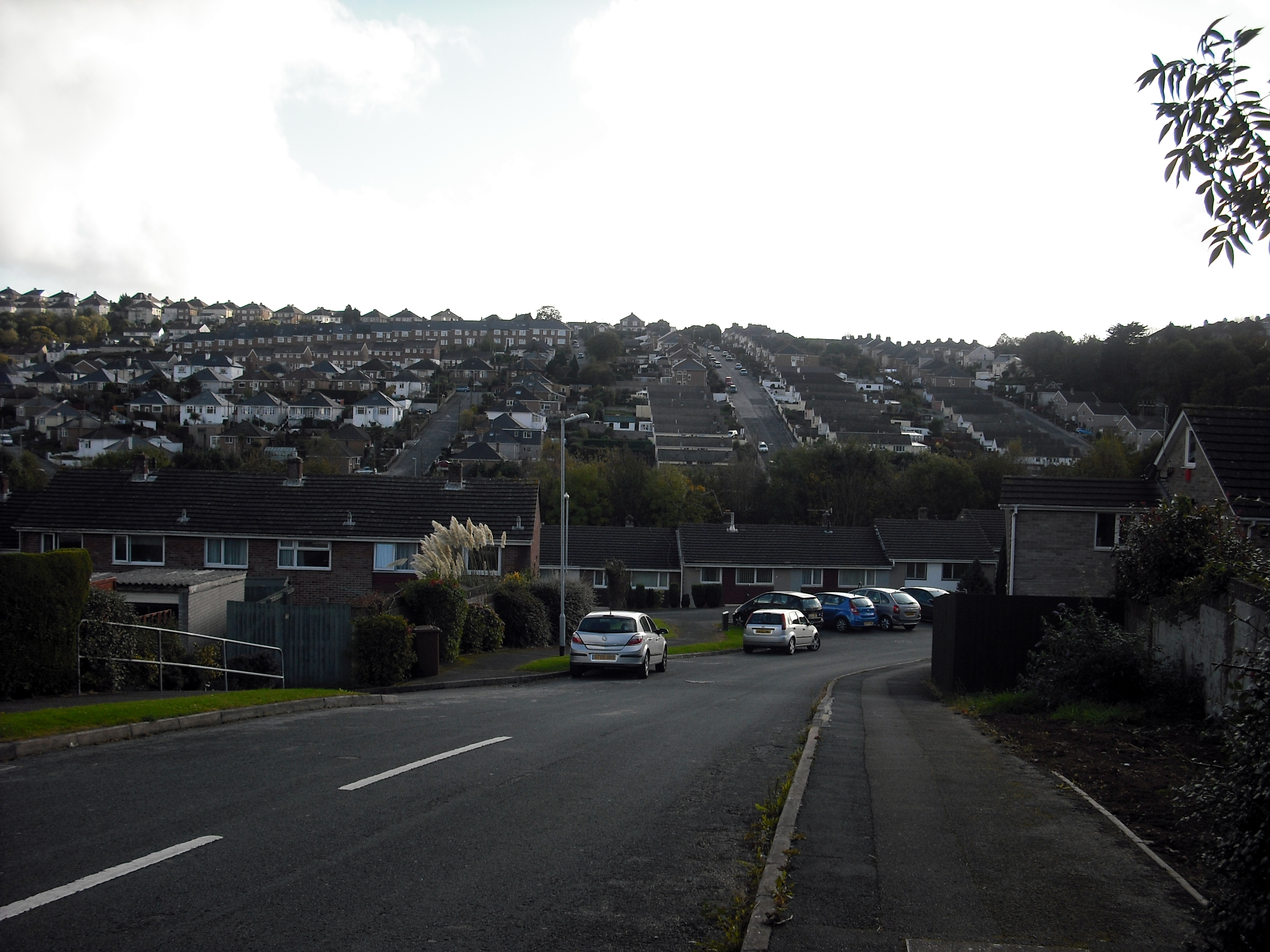 View of the suburb of Eggbuckland, Plymouth, England. Photo was taken north of the A38 road, in Eggbuckland, looking southwards towards the southern tip of the suburb.